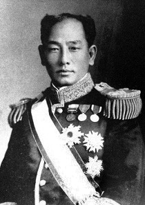 Itō Miyoji (1857–1934)